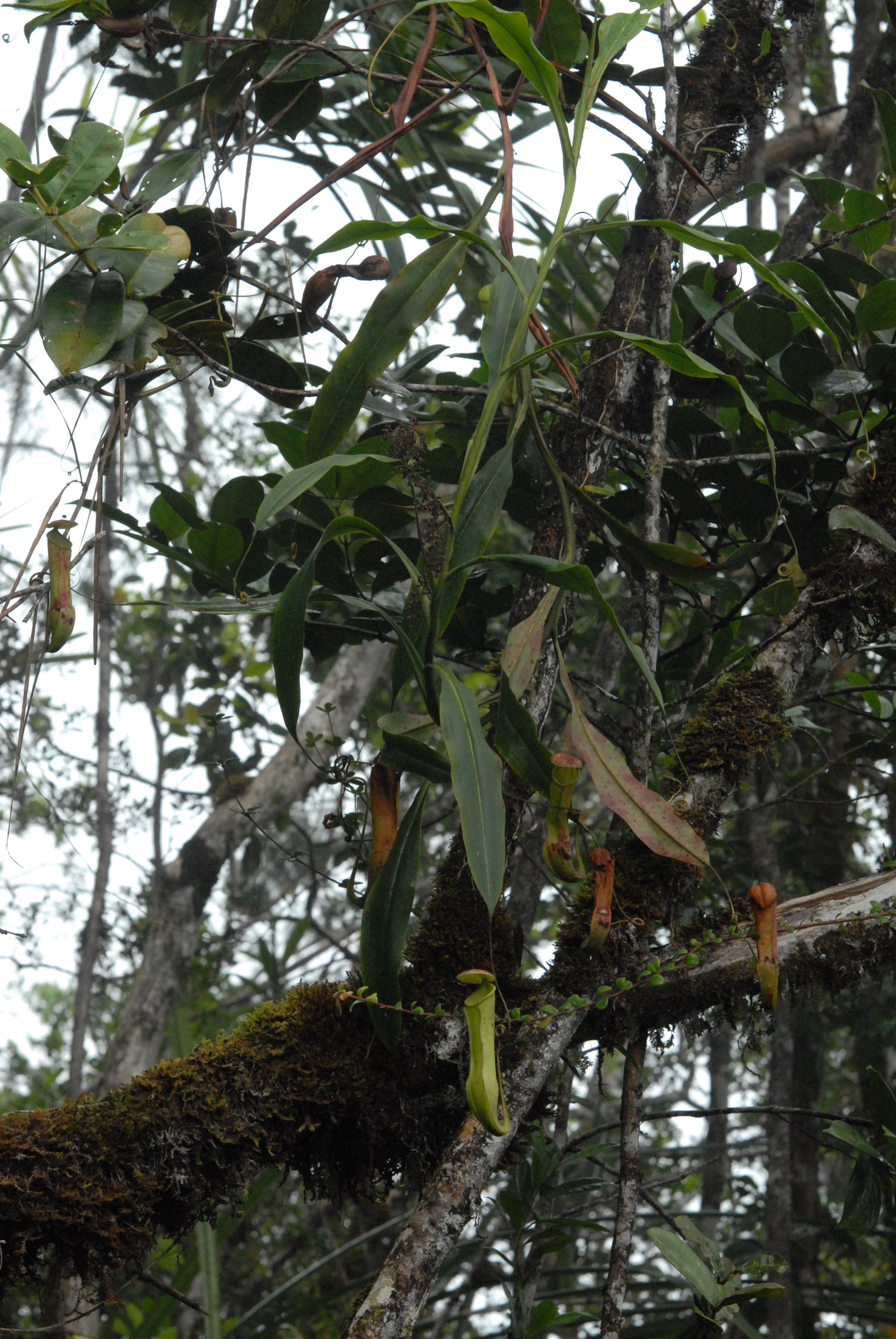 Nepenthes papuana climbing plant with upper pitchers from the Doorman Massif, New Guinea